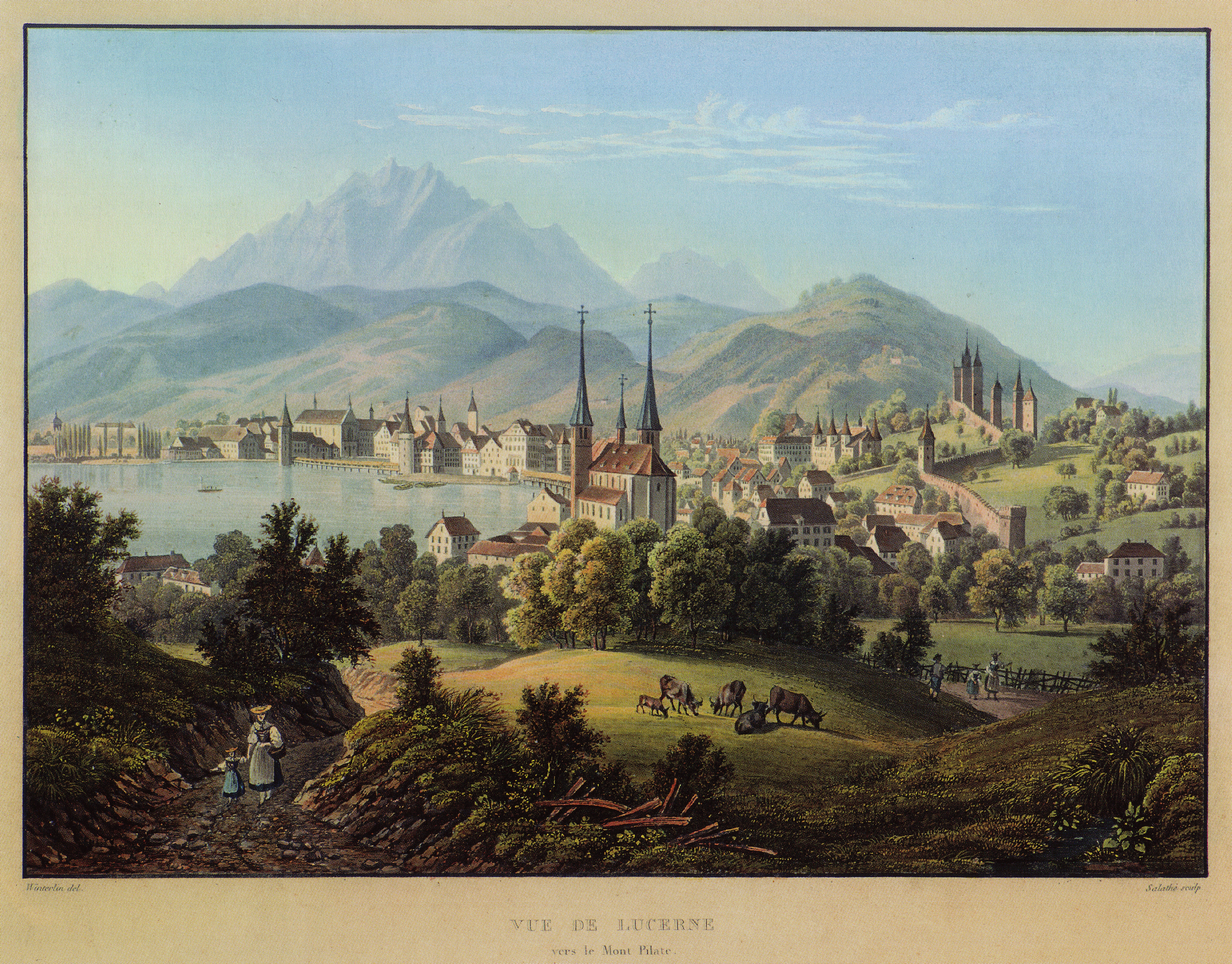 »VIEW OF LUCERNE towards Mount Pilatus.« Colored Aquatint by Frederick Salathé, after a Drawing by Antony Winterlin; 20.5 cm × 28.4 cm.